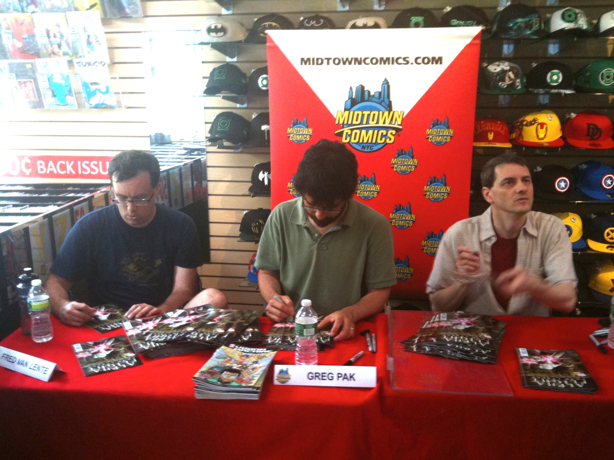 Comic book creators Fred Van Lente, Greg Pak and Mark Paniccia at a signing for Alpha Flight vol 4, #1 at Midtown Comics Downtown on June 18, 2011. Photographed by Luigi Novi. This photo is not in the public domain. It may, however, be used, modified and published for any purpose, free of charge, only if the photographer is properly credited, either by linking the photograph to this page, or with an easily visible credit to the photographer placed near the photo in each instance in which it is used. (See licensing information below.) Publication of this photo without this proper attribution constitutes copyright infringement. If you have any questions, you can contact me on my Wikipedia Talk Page.